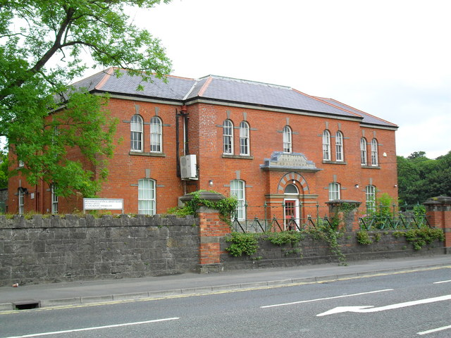 The old Enniskillen Model School On the Dublin Road. Opened in 1867 as the District National Model School - it wa replaced in 1975 by a new building behind it. Since it has been used as the Fermanagh divisional office of the Education Authority.